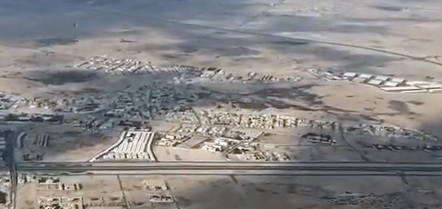 Aerial view of Umm Salal municipality.